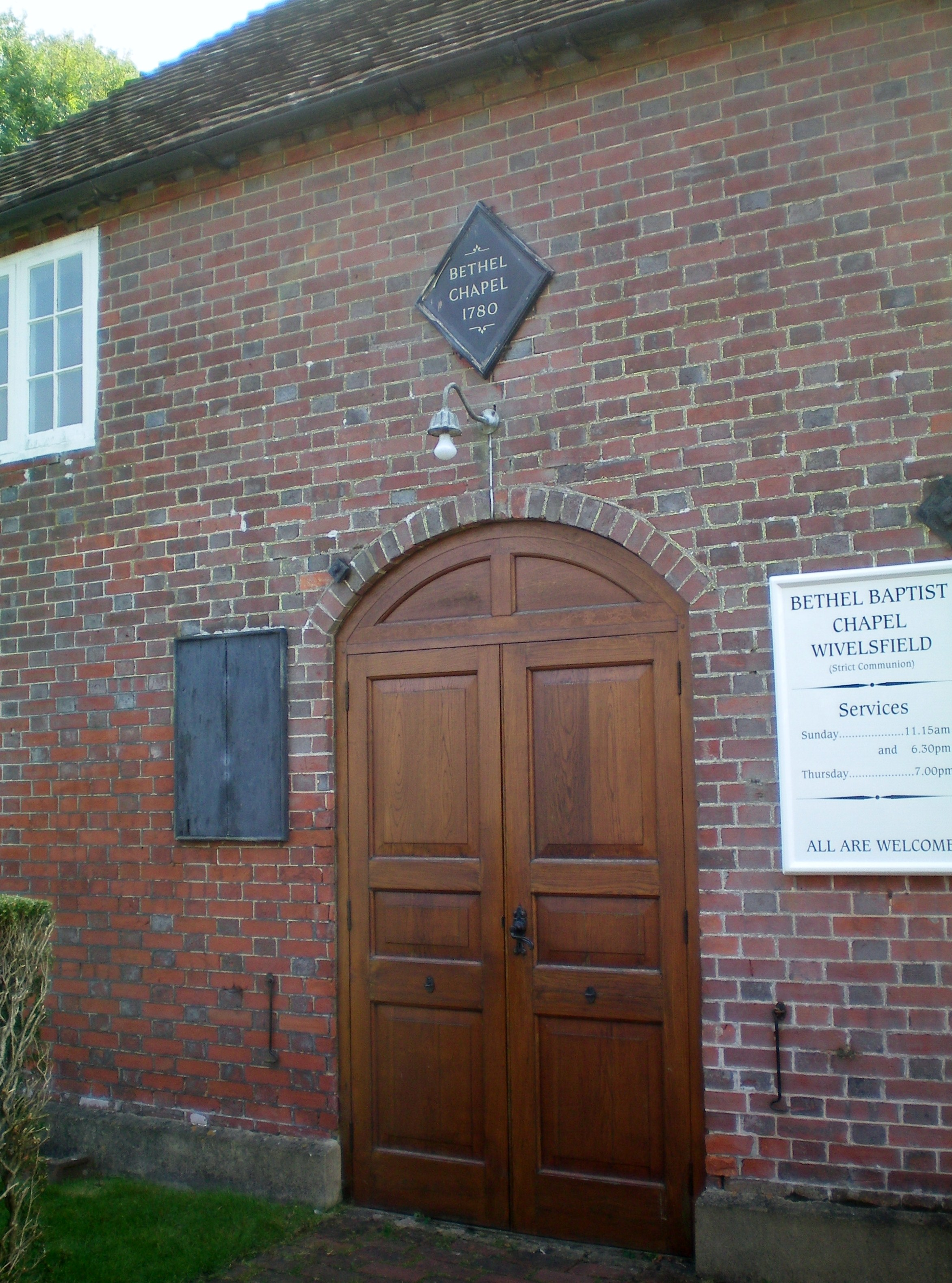 Wivelsfield Strict Baptist Chapel, East Sussex, England.